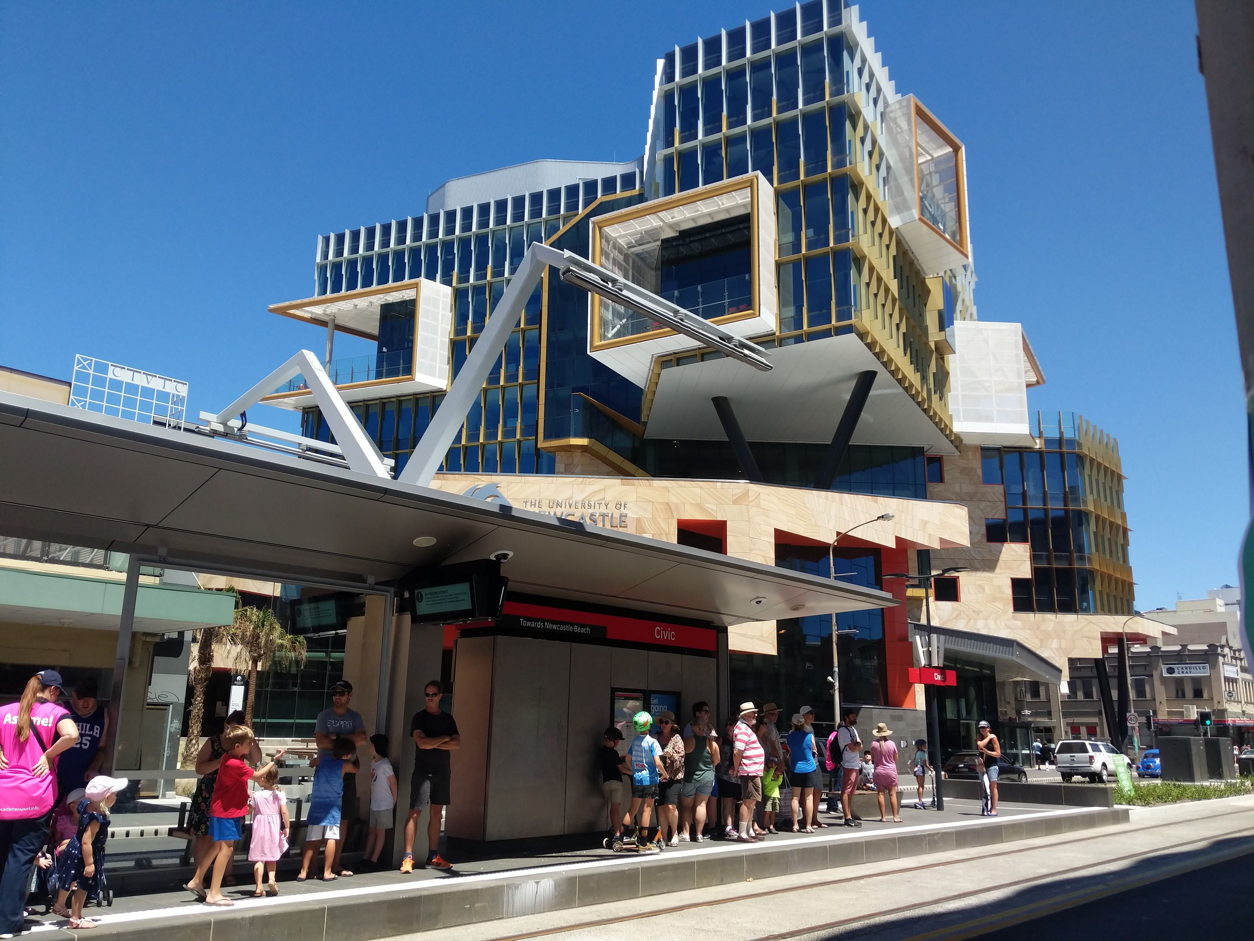 Civic Light Rail Stop, Newcastle, Australia